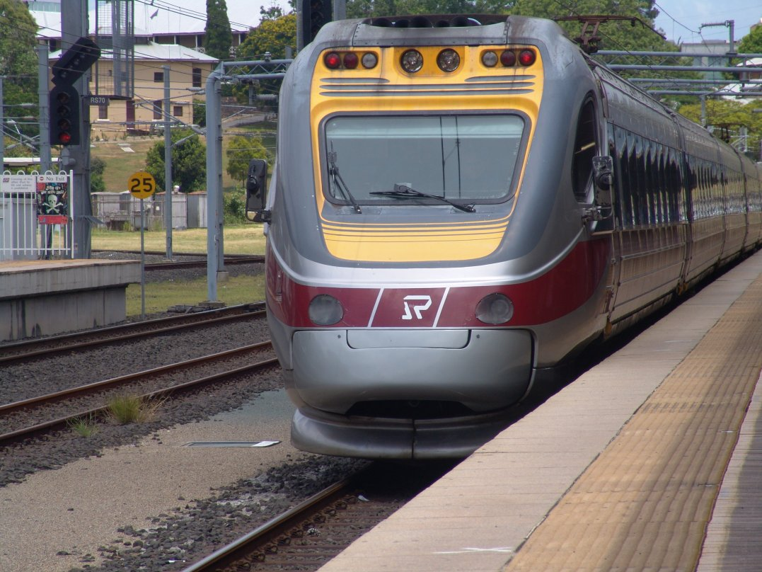 Rockhampton Tilt Train, January 2006. Photograph by John Catsoulis